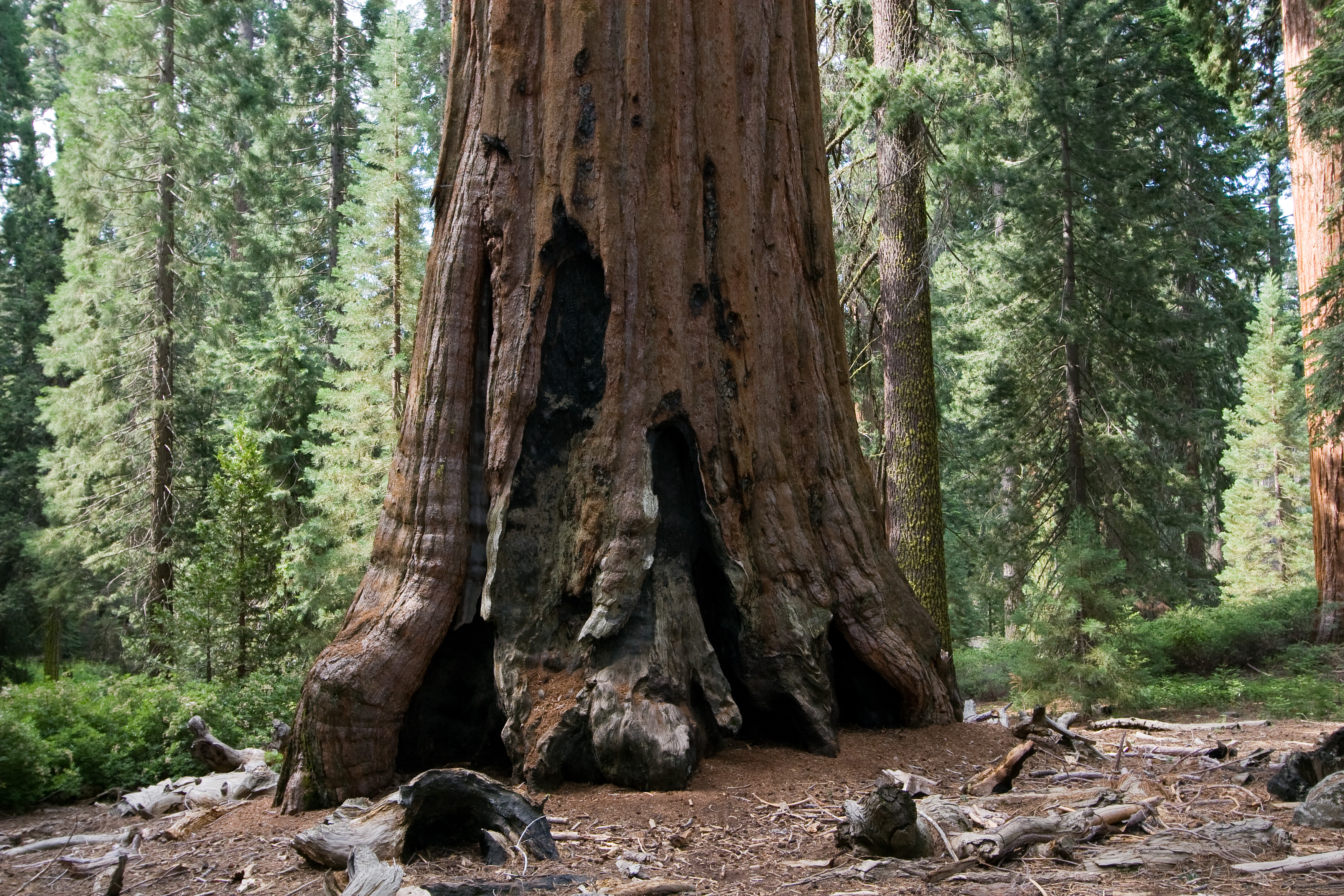 Giant Sequoia (Sequoiadendron giganteum) trunk